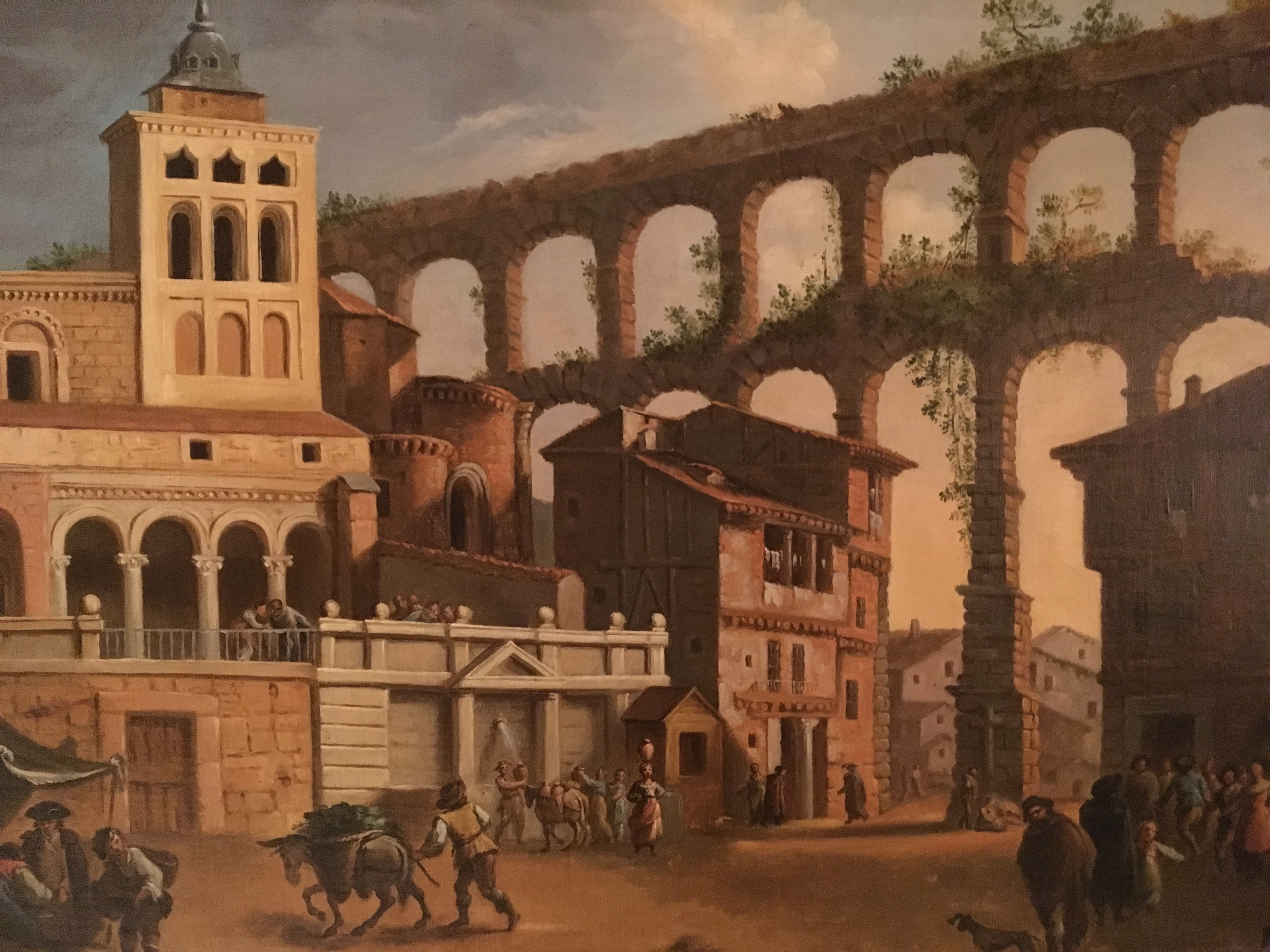 José María Avrial y Flores Vista de la plaza del Azoguejo y Santa Columba, 1850, Museo de Segovia